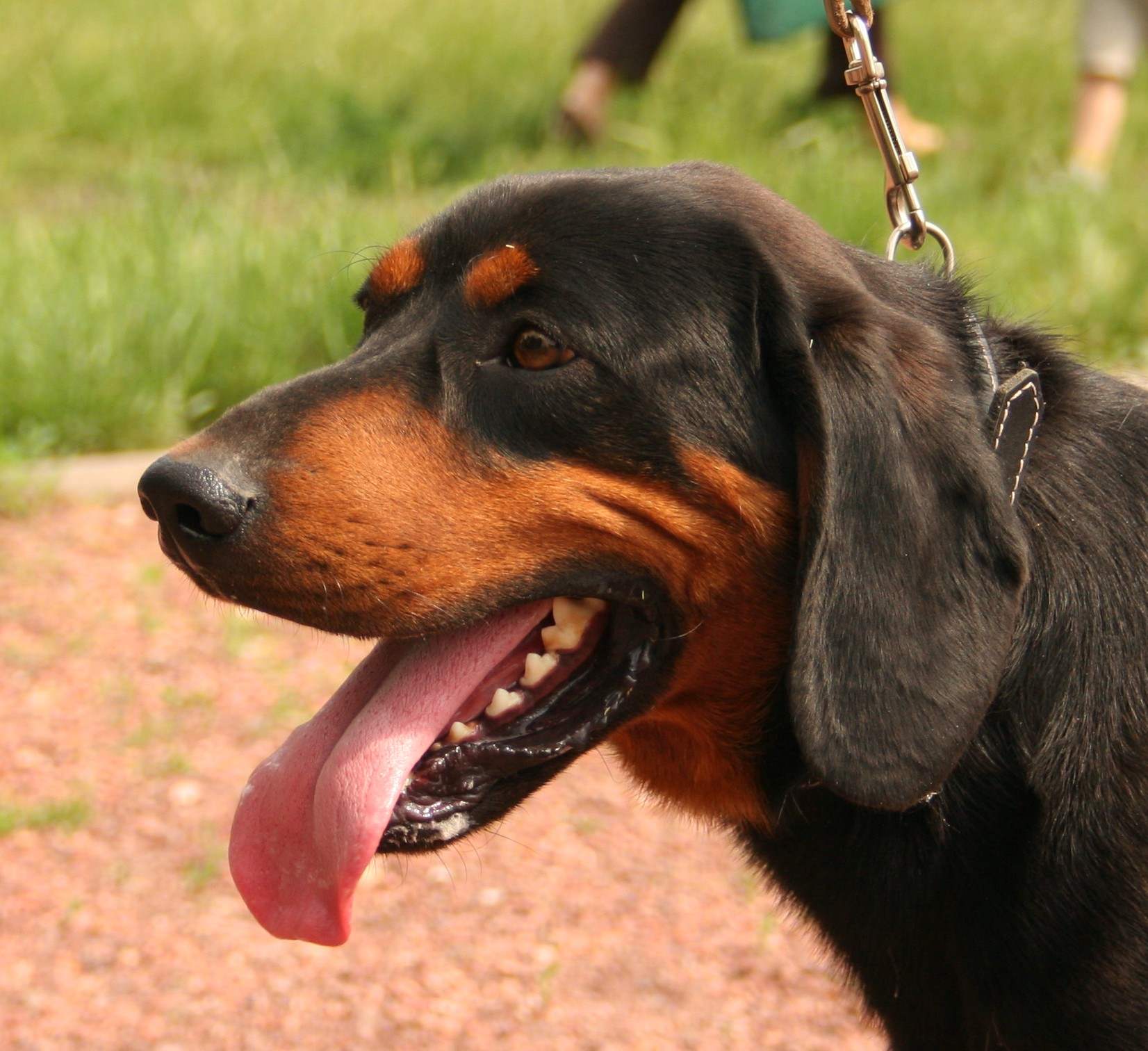 Slovakian Hound during dog's show in Racibórz,Poland